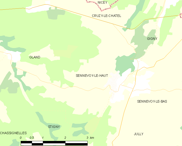 Map of French municipality Sennevoy-le-Haut